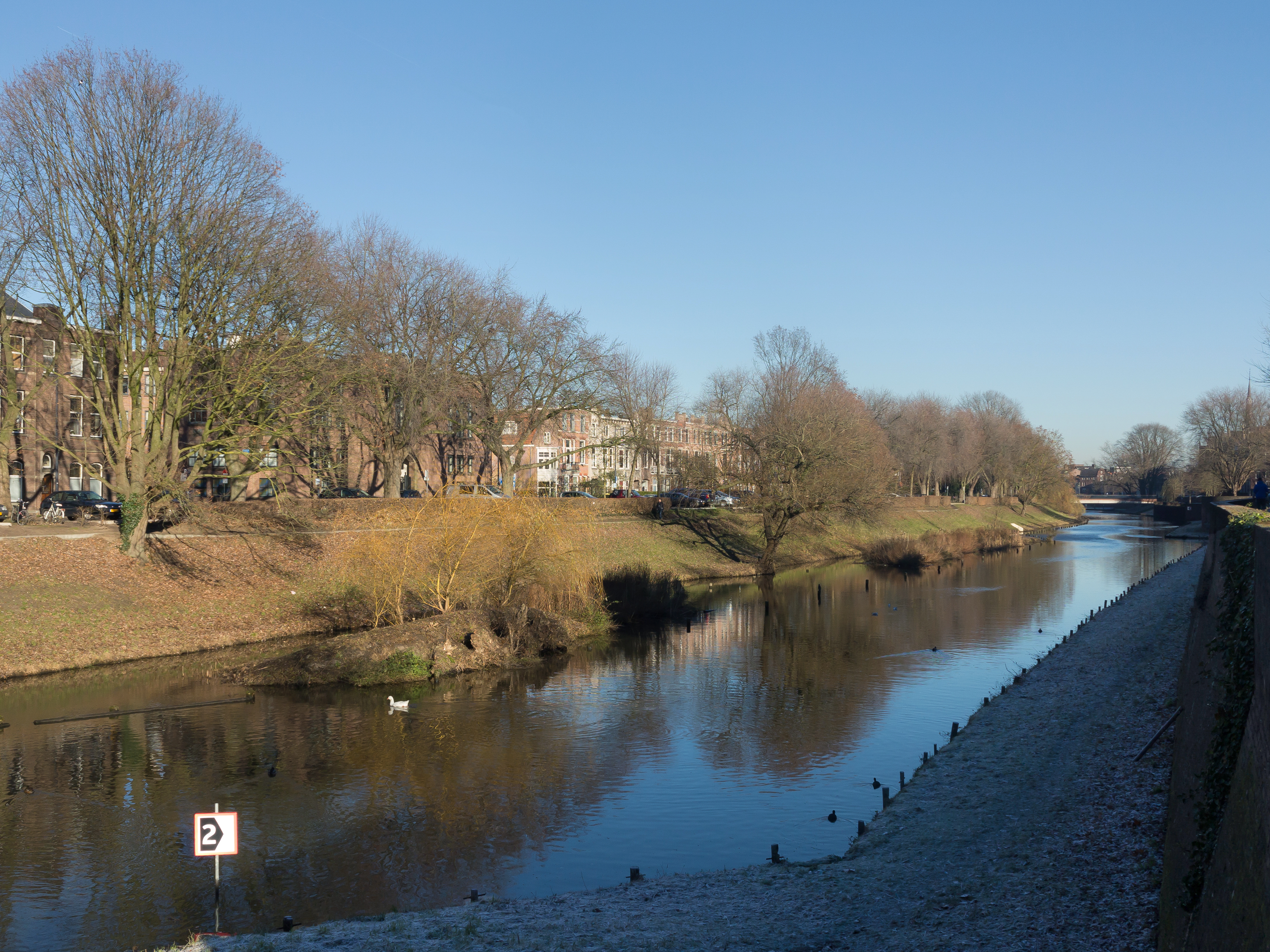 's-Hertogenbosch, the Dommel from the Molenberg